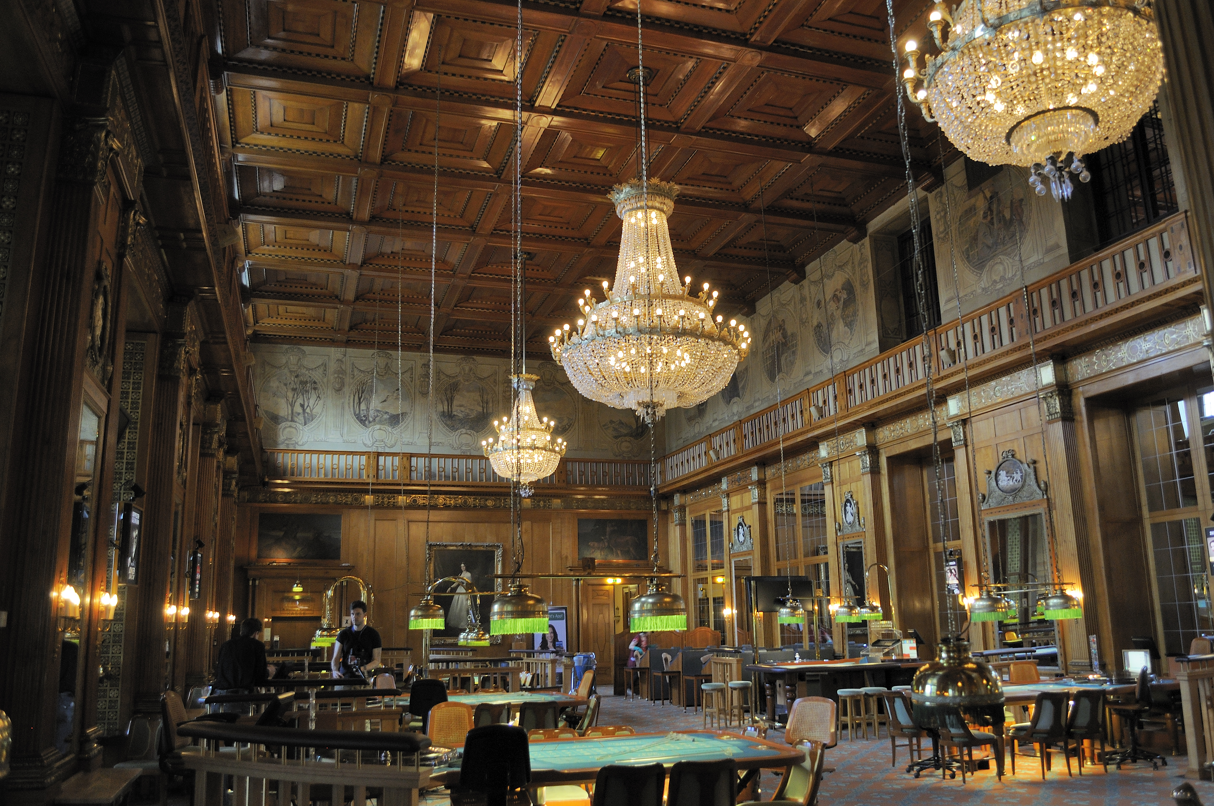 Spielbank Wiesbaden (Germany).